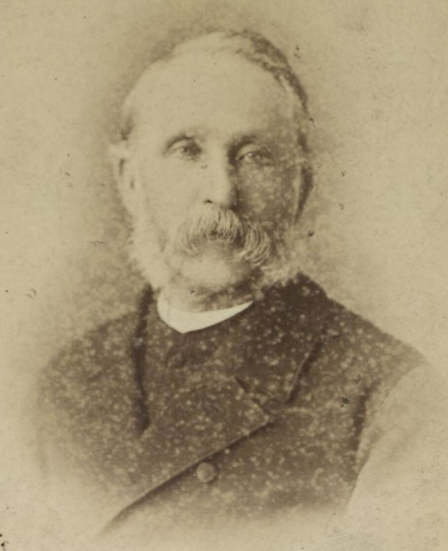 A portrait from the Welsh Portrait Collection at the National Library of Wales. Depicted person: Thomas Levi – Welsh Calvinistic Methodist minister